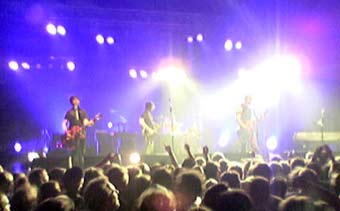 United States rock band Queens of the Stone Age, Live in Berlin (Columbiahalle). Front left to right: Troy Van Leeuwen, Alain Johannes, Josh Homme (Natasha Shneider was not on stage during that song, yet her keyboard is visible at the right)